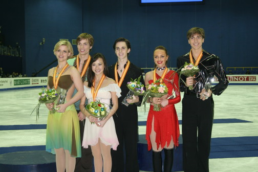 The ice dancing podium at the 2008-2009 Junior Grand Prix Final. From left: Madison Hubbell / Keiffer Hubbell (2nd), Madison Chock / Greg Zuerlein (1st), Ekaterina Riazanova / Jonathan Guerreiro (3rd).